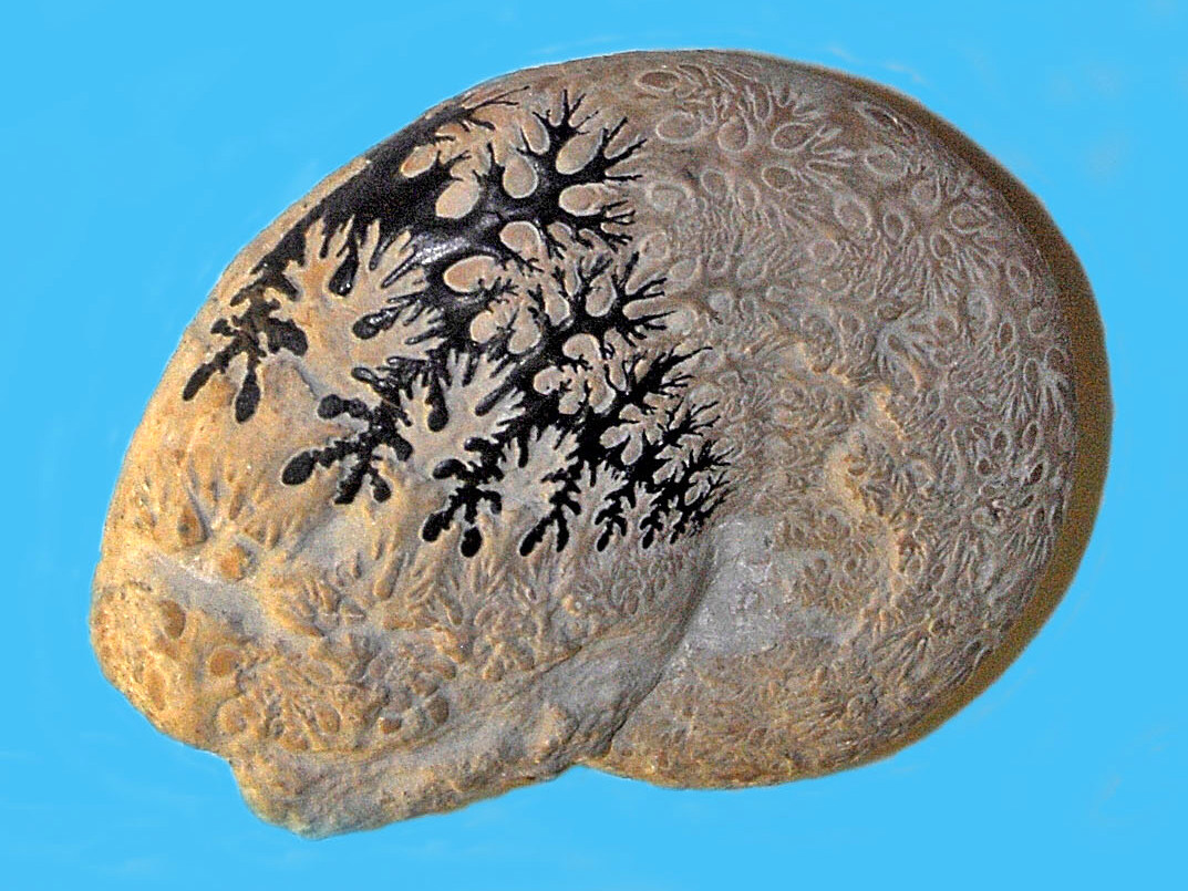 Fossil shell of Calliphylloceras spadae on display at the Museo Civico di Storia Naturale di Milano